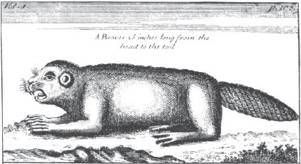 Lahontan's depiction of a beaver